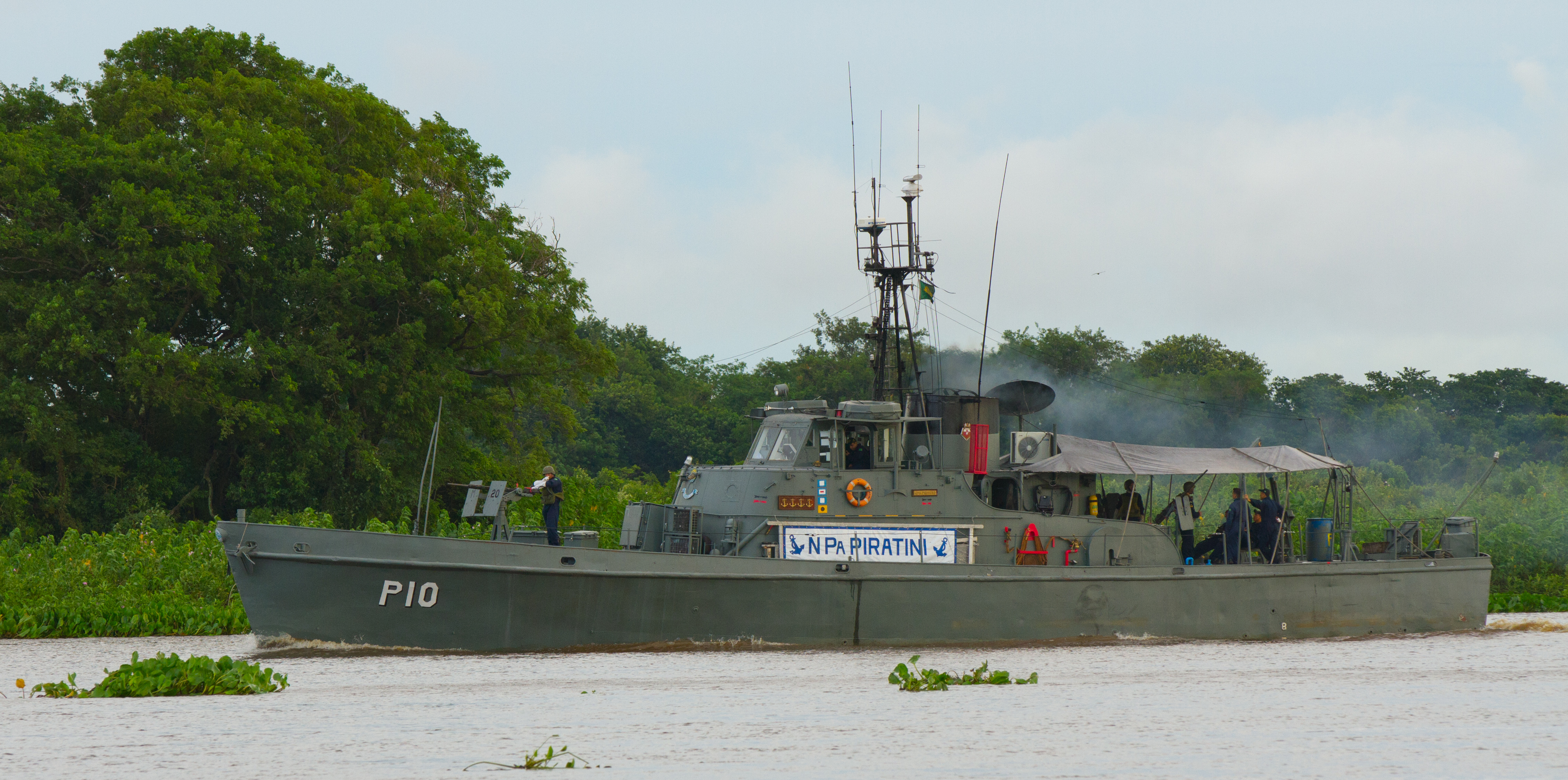 NPa Piratini steams upriver along the Paraguay River, passing the riverfront in Corumbá, Mato Grosso do Sul, Brazil.